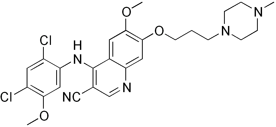 chemical structure of bosutinib